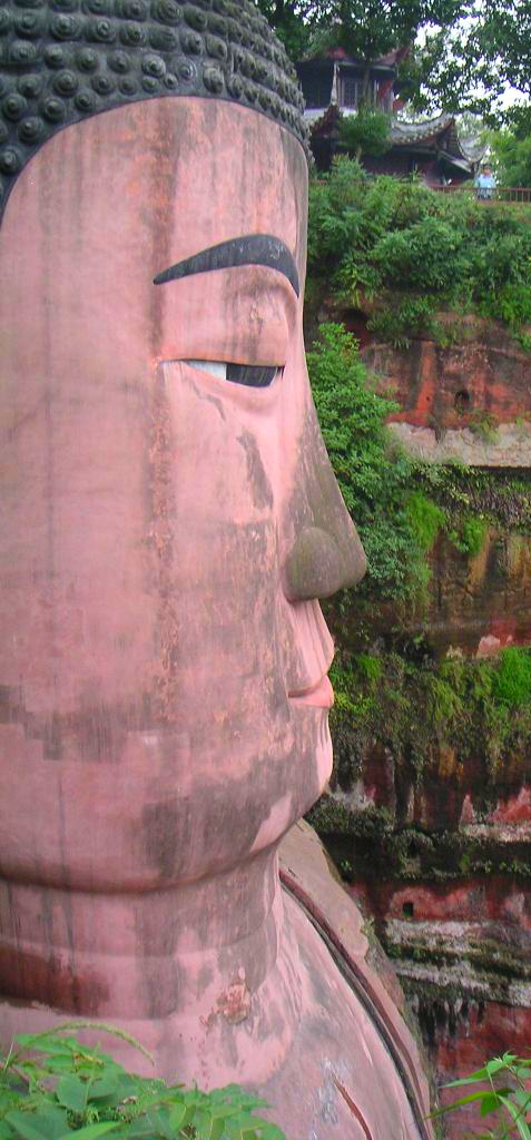 Head of Leshan Giant Buddha, comparinging in size to spectator beyond.